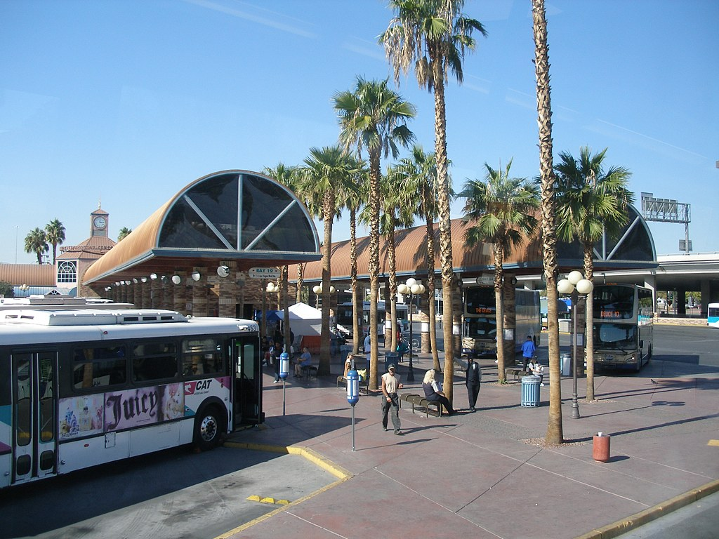 The Downtown Transportation Center in Las Vegas where many Citizens Area Transit lines once converged (since succeeded by the Bonneville Transportation Center.